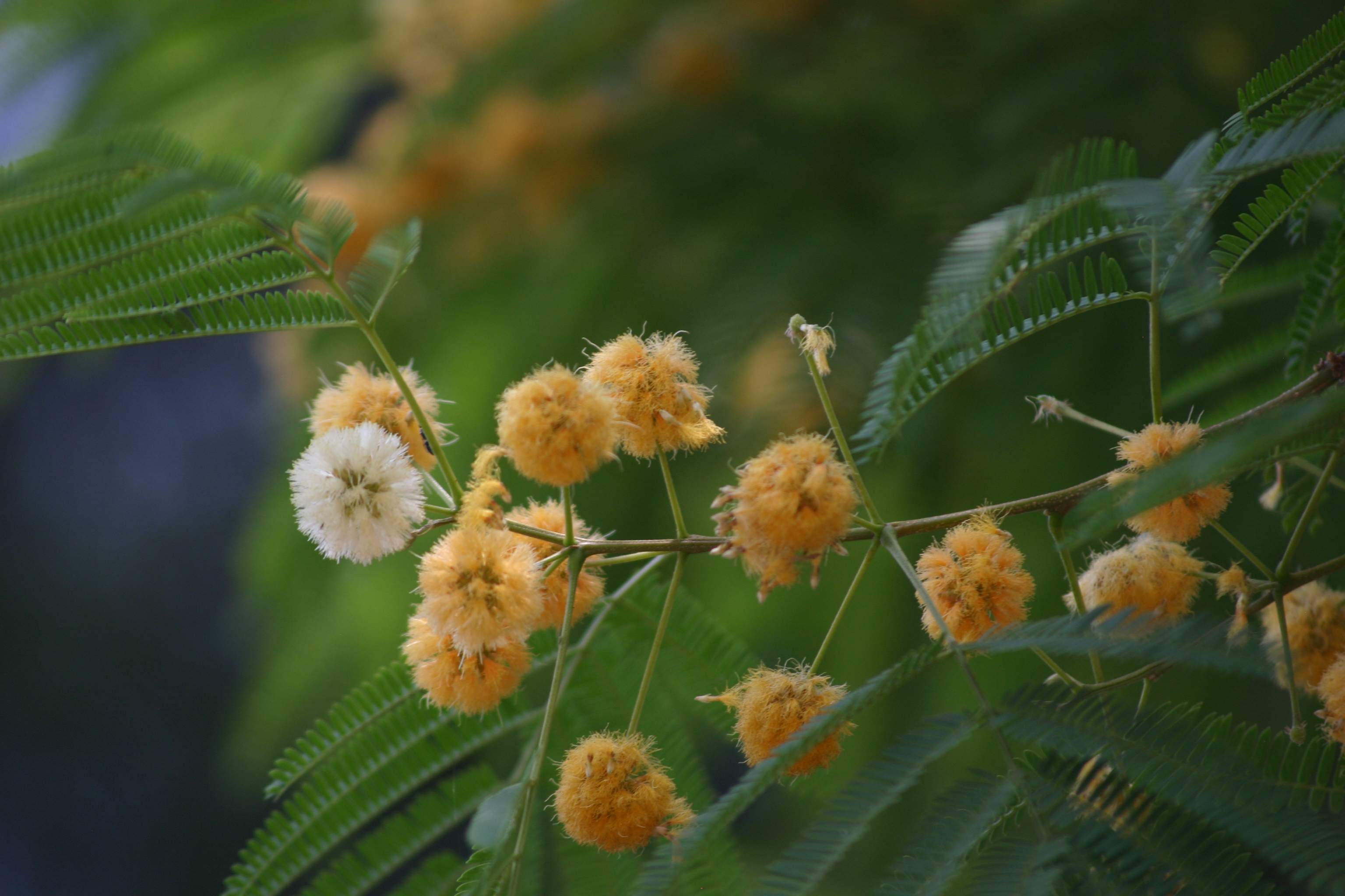 Albizia odoratissima, cultivated tree in Johannesburg suburban garden